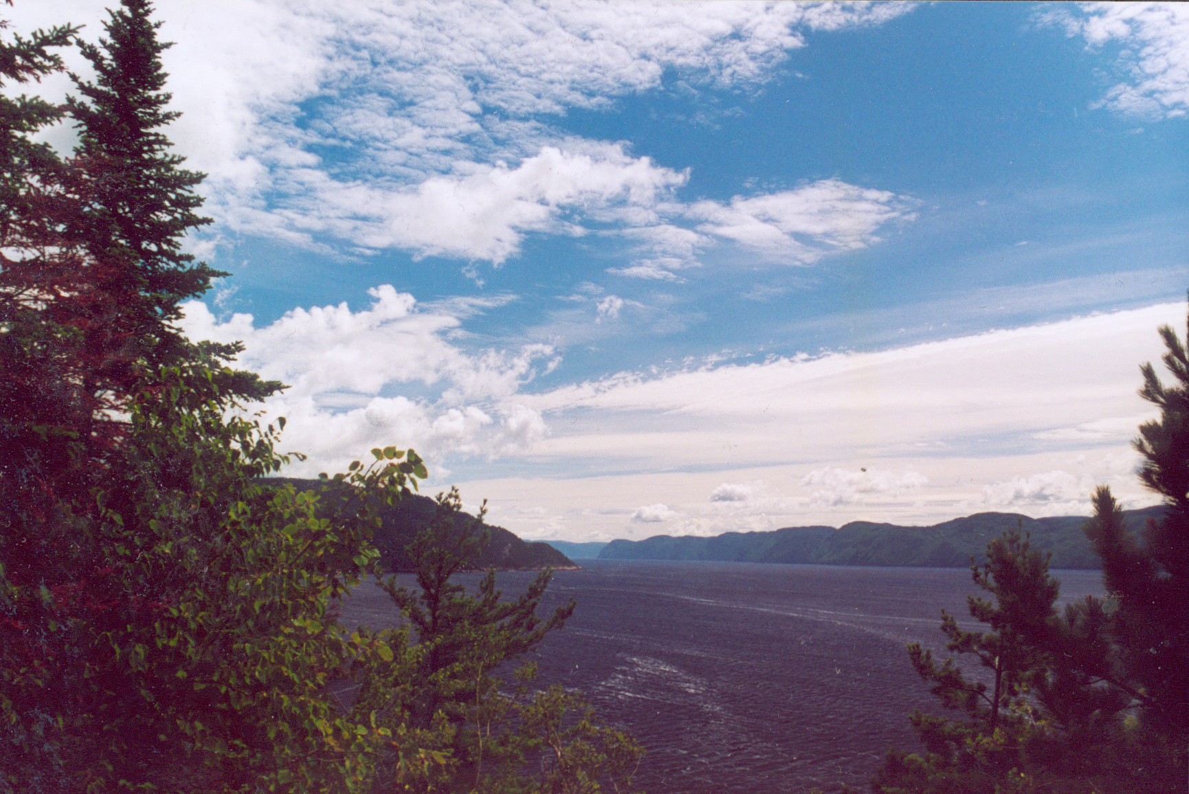 View of the Saguenay River - Québec - Canada